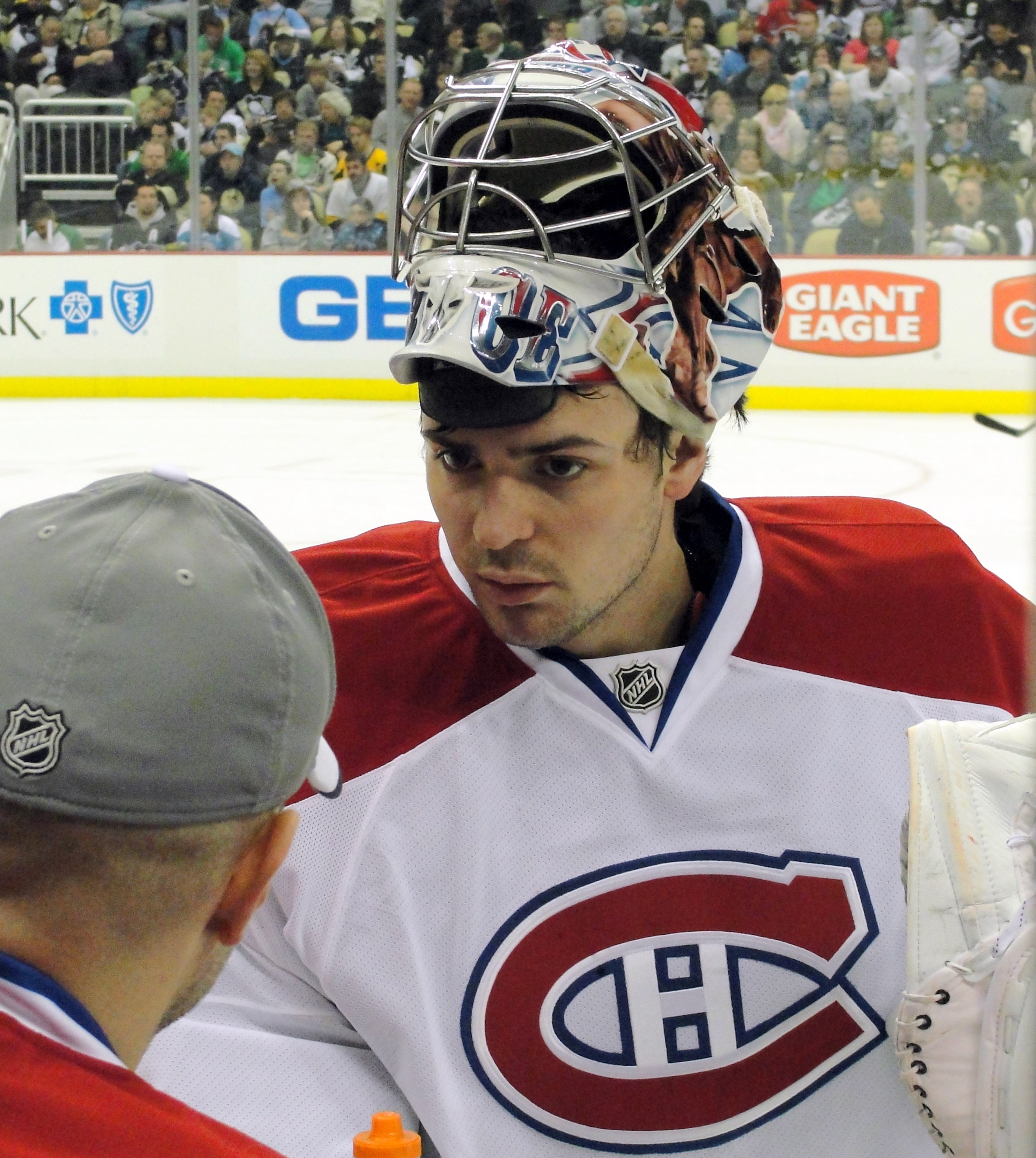 Carey Price stops by the bench to confer with backup goaltender Alex Auld during a stoppage in play. Price picked up the shutout for the Montreal Canadiens against the Pittsburgh Penguins, March 12, 2011 at Consol Energy Center in Pittsburgh, PA.